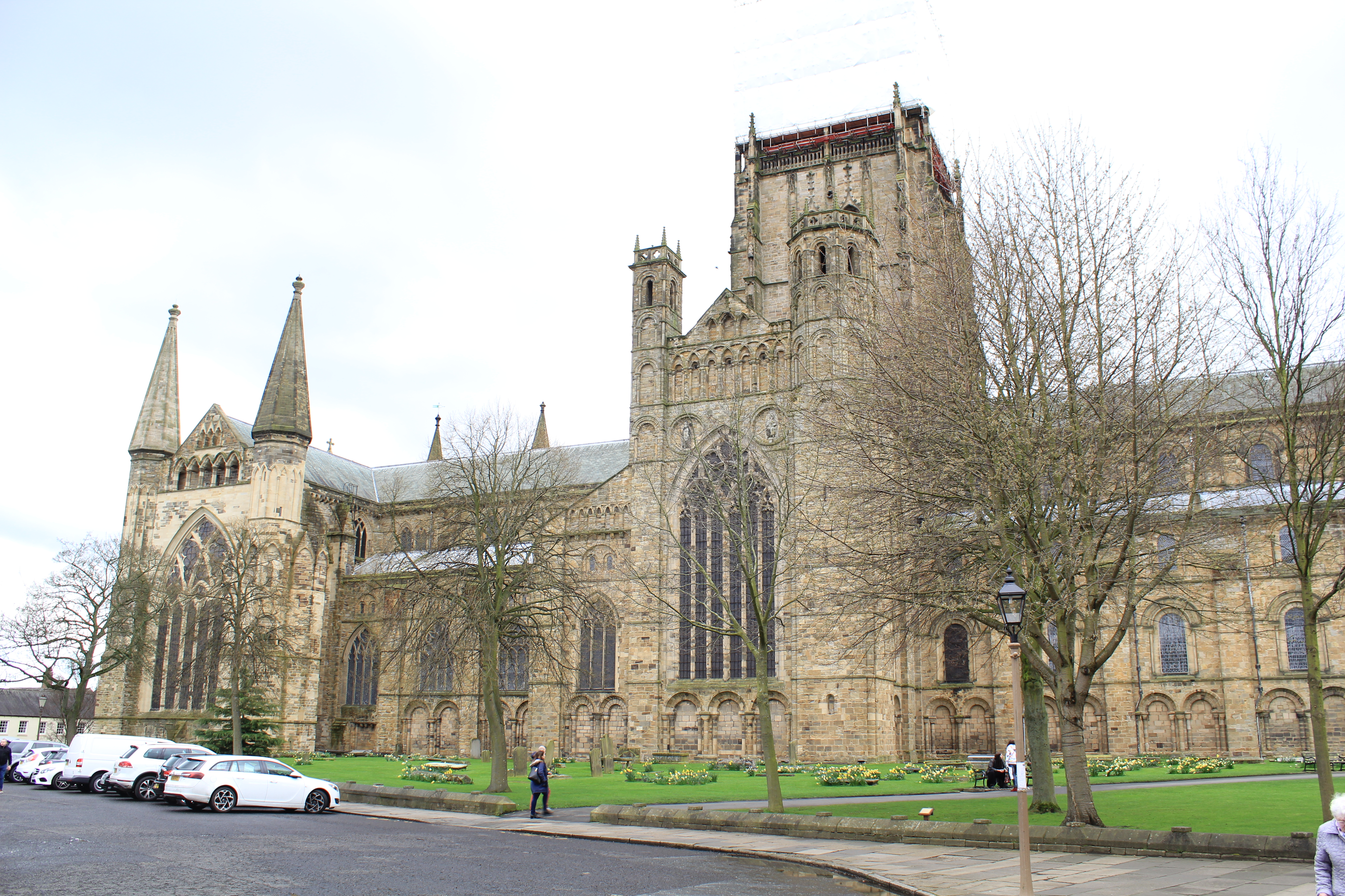 Durham Cathedral, March 2017 (2) This file was generated using equipment from Wikimedia UK, a Wikimedia local chapter.